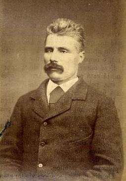 José Jacinto Nunes, in a c. 1882 photograph.